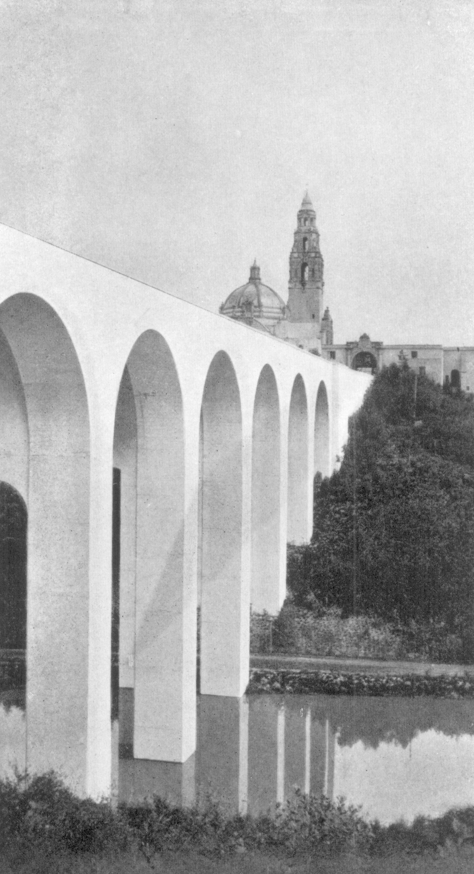 El Puente Cabrillo (Cabrillo Bridge) of the 1915 Panama-California Exposition, Balboa Park, San Diego, California. View of the bridge and pool. Bathing the base of the piers of the bridge is a small lake or pool called the Laguna del Puente. Its surface is dotted with the bright blossoms and green pads of many varieties of water-lilies. At its upper end are rushes, bamboo and pampas grass, forming, all told, a picture of refreshing beauty during the dry season when the hills beyond the Exposition are clothed in the brown, gray and soft purple of summer verdure. A view of the bridge and its reflection together with the California Building springing from the hill beyond, make one the most charming and impressive pictures of the Exposition.